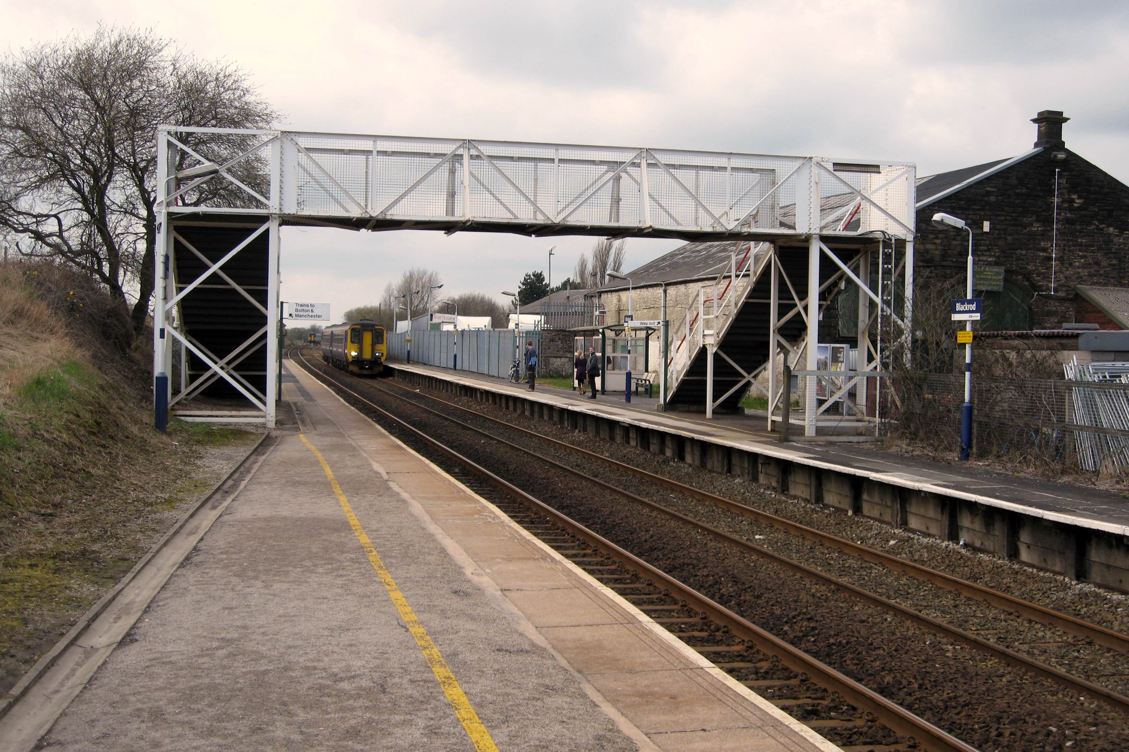 Blackrod Station Platform